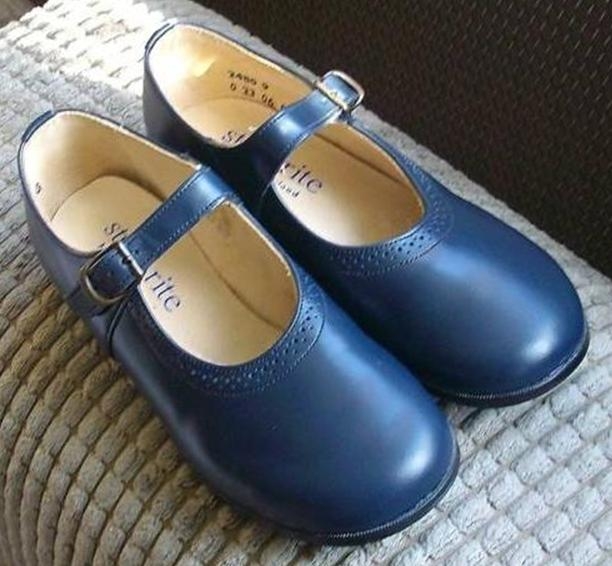 Mary Jane (Also known as bar shoes) is an American term (formerly a registered trademark) for a closed, low-cut shoe with one or more straps across the instep.